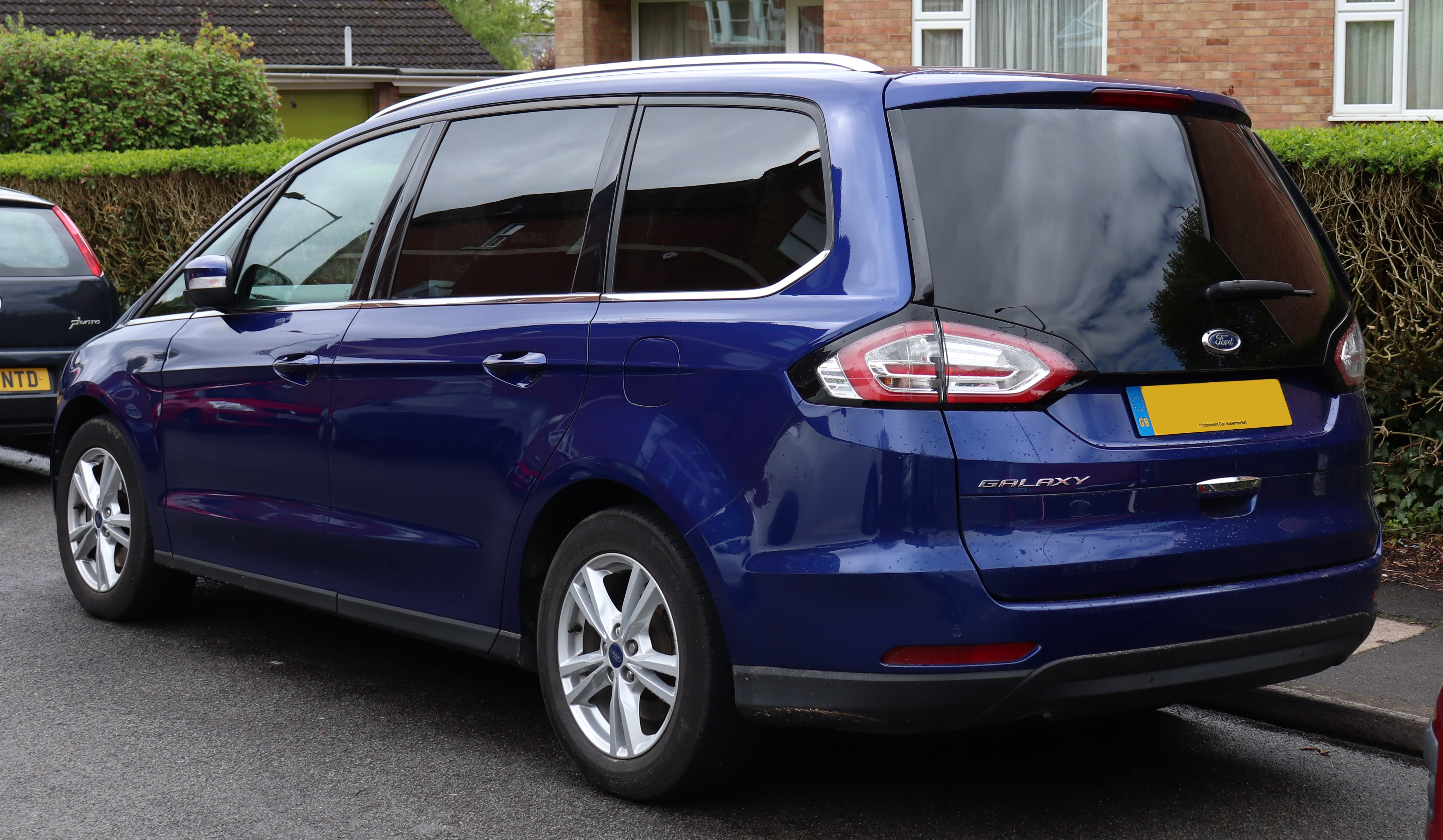 2016 Ford Galaxy Titanium TDCi 2.0 Rear Taken in Leamington Spa